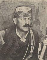 IMARO chetnik and bulgarian revolutionary Stoyche Letnik